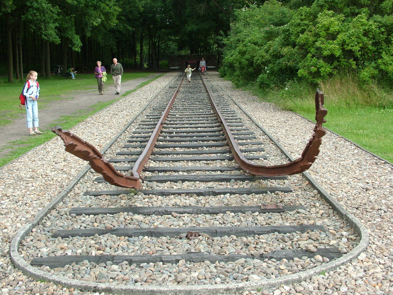 Kamp Westerbork, the Netherlands.